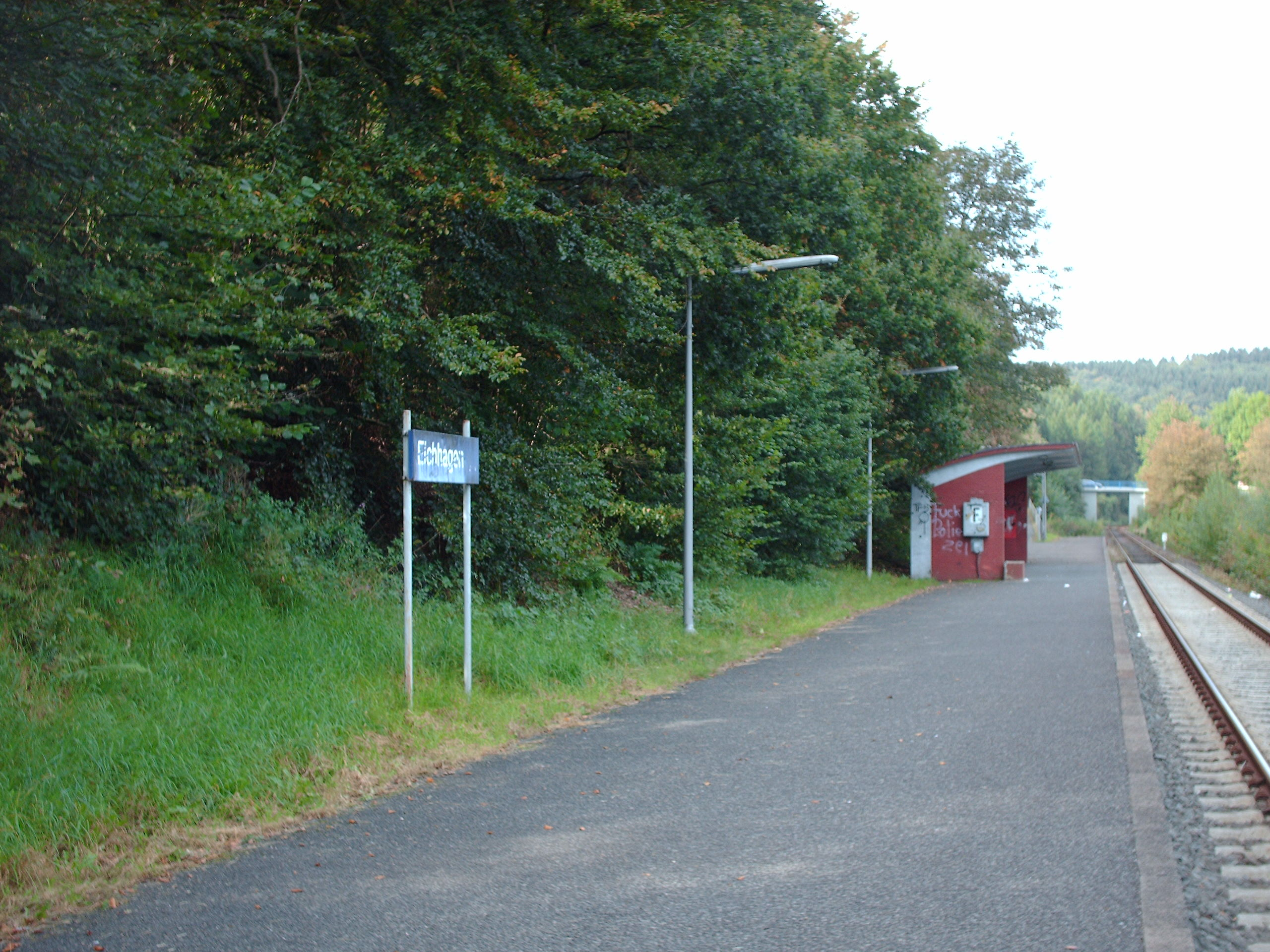 Eichhagen station, Olpe, Germany check usage